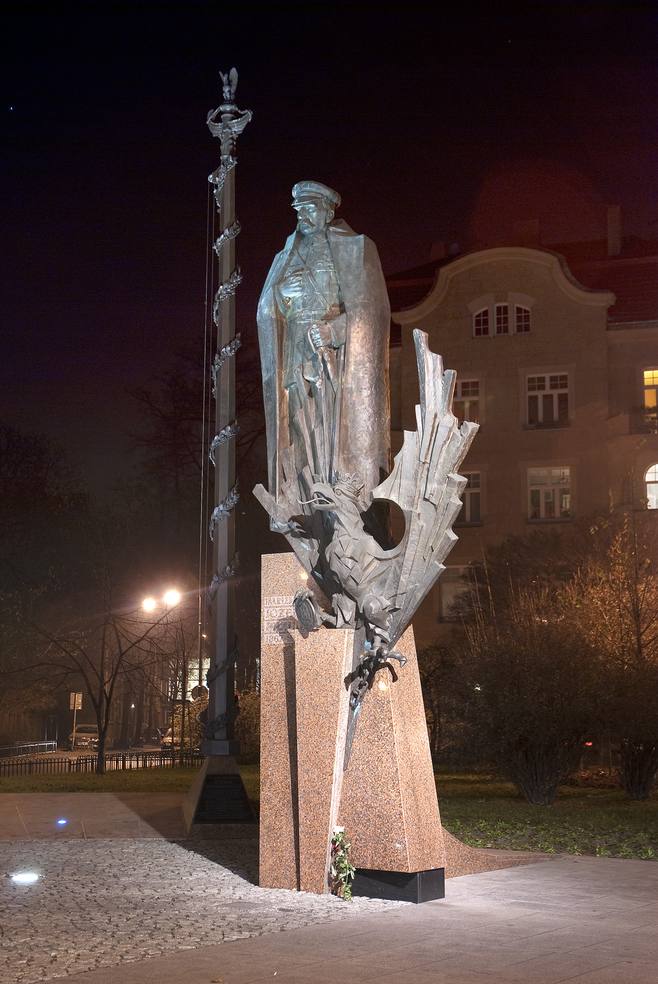 Józef Piłsudski monument in Krakow